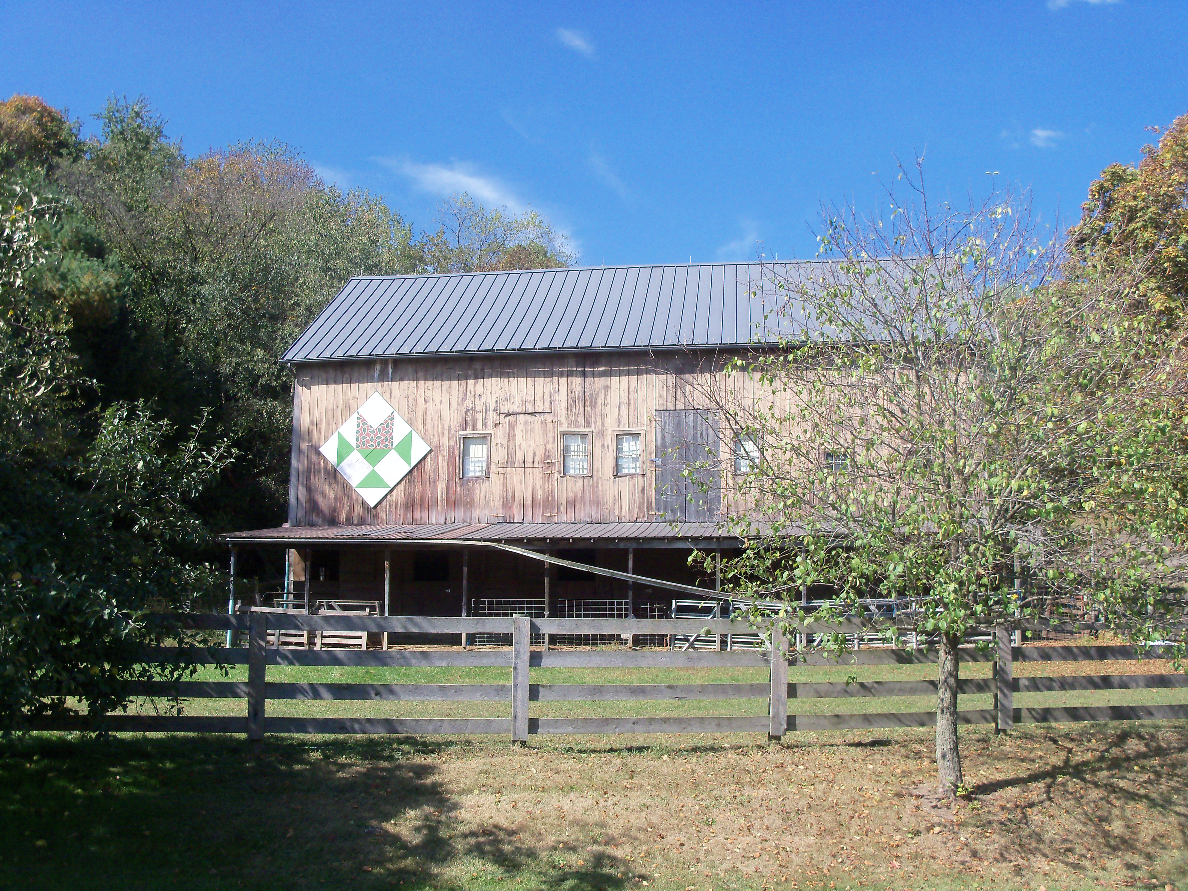 This barn has a quilt block with stylized chalice painted on side facing highway in Coshocton County,Ohio